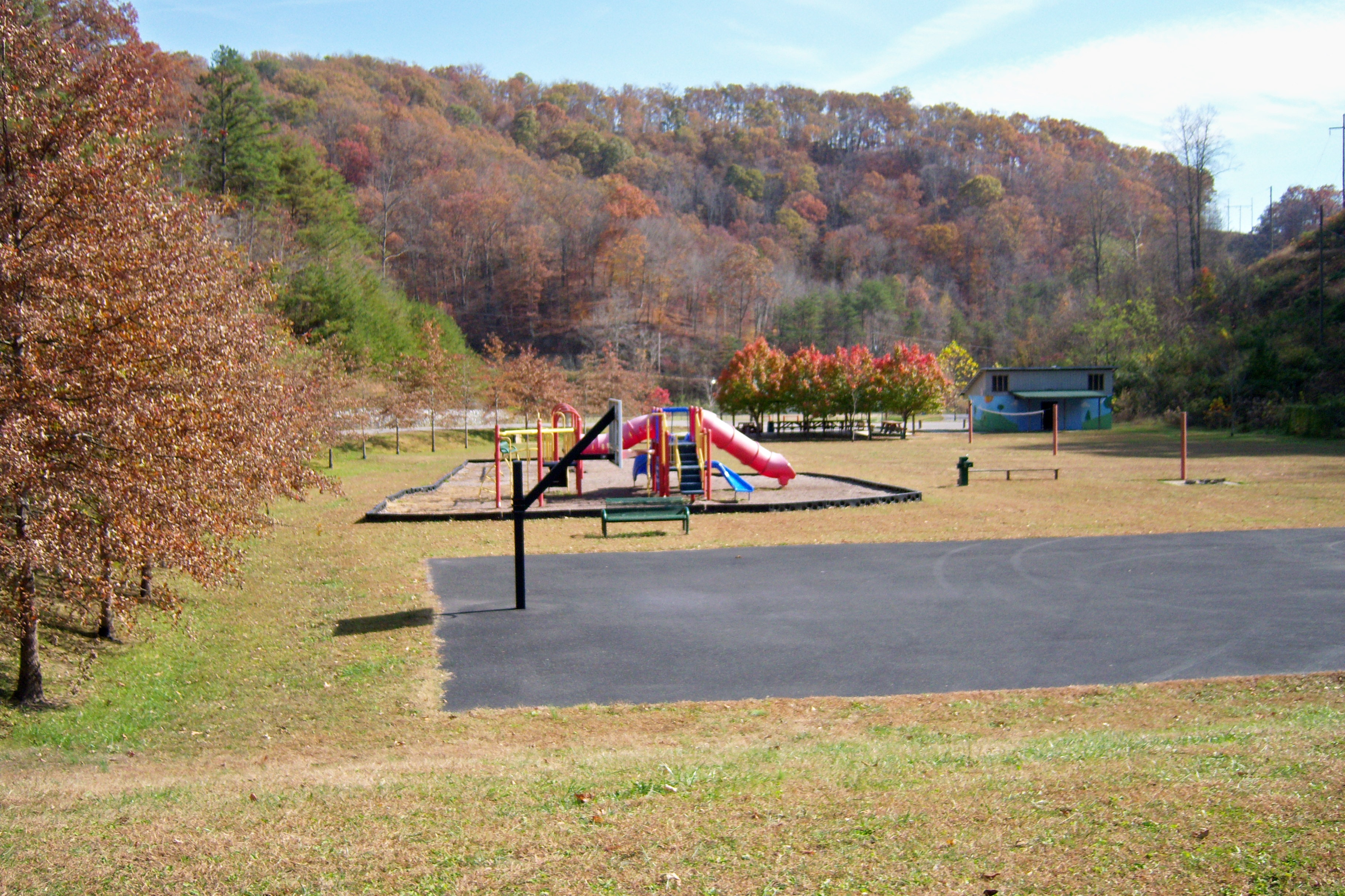 Johnson County Park and Recreational Area (Thealka Park) in Thealka, Kentucky.